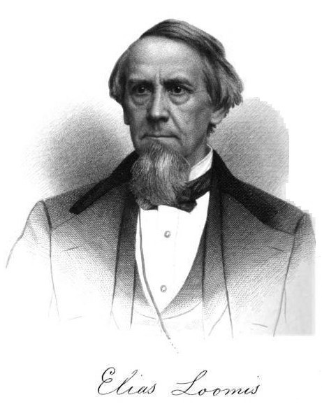 Picture of Elias Loomis, the American mathematician